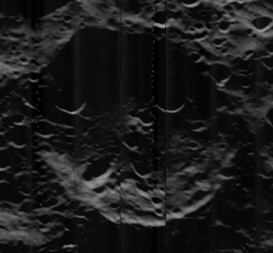 Oblique view of Charlier, on the far side of the moon, facing west. Band crossing image is artifact of original.